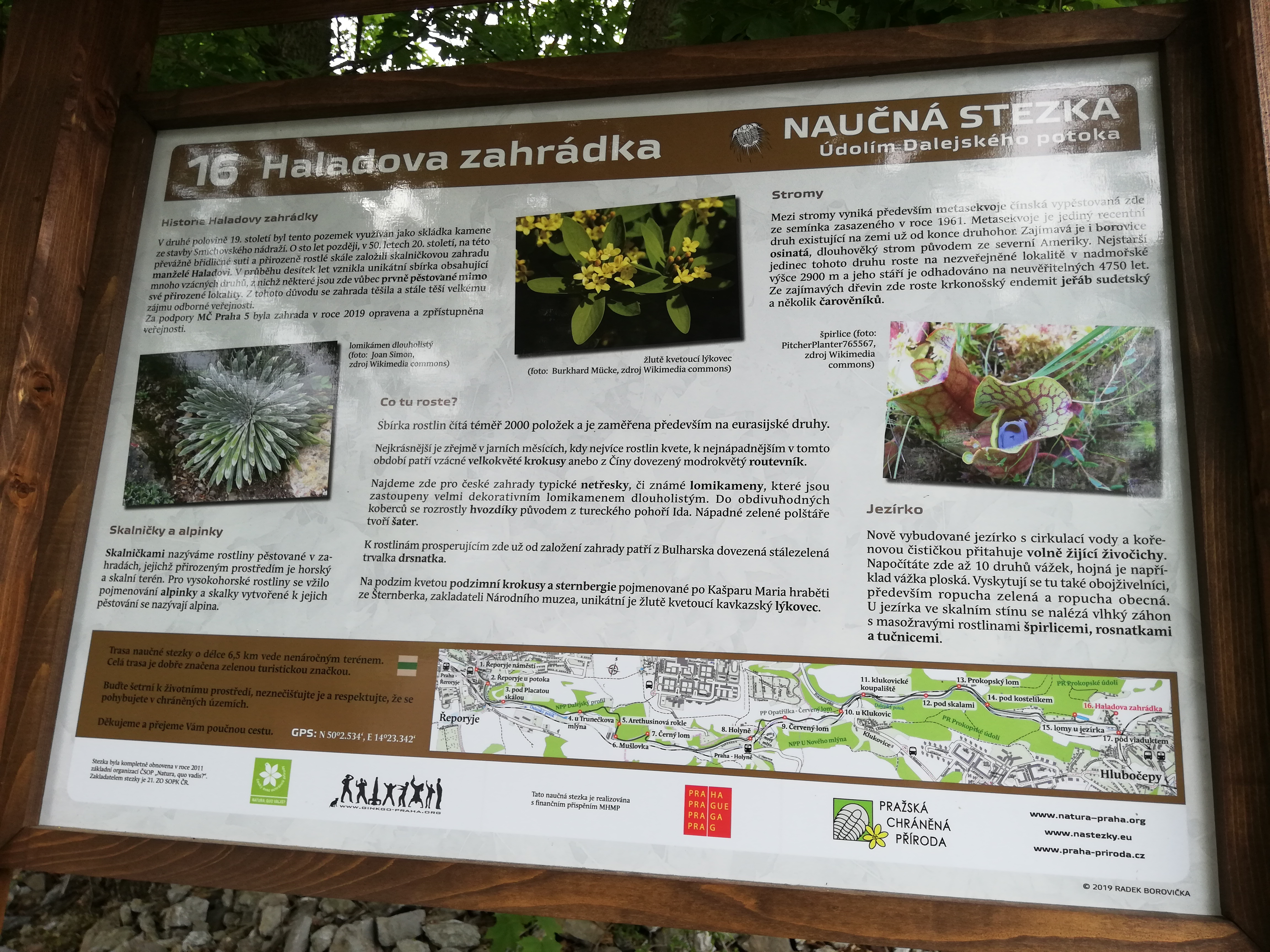 Information board number 16 („Garden of Mr. Halada“) as a part (stop) of the nature trail "Daleje brook valley". Prague - Hlubočepy; Czech Republic.